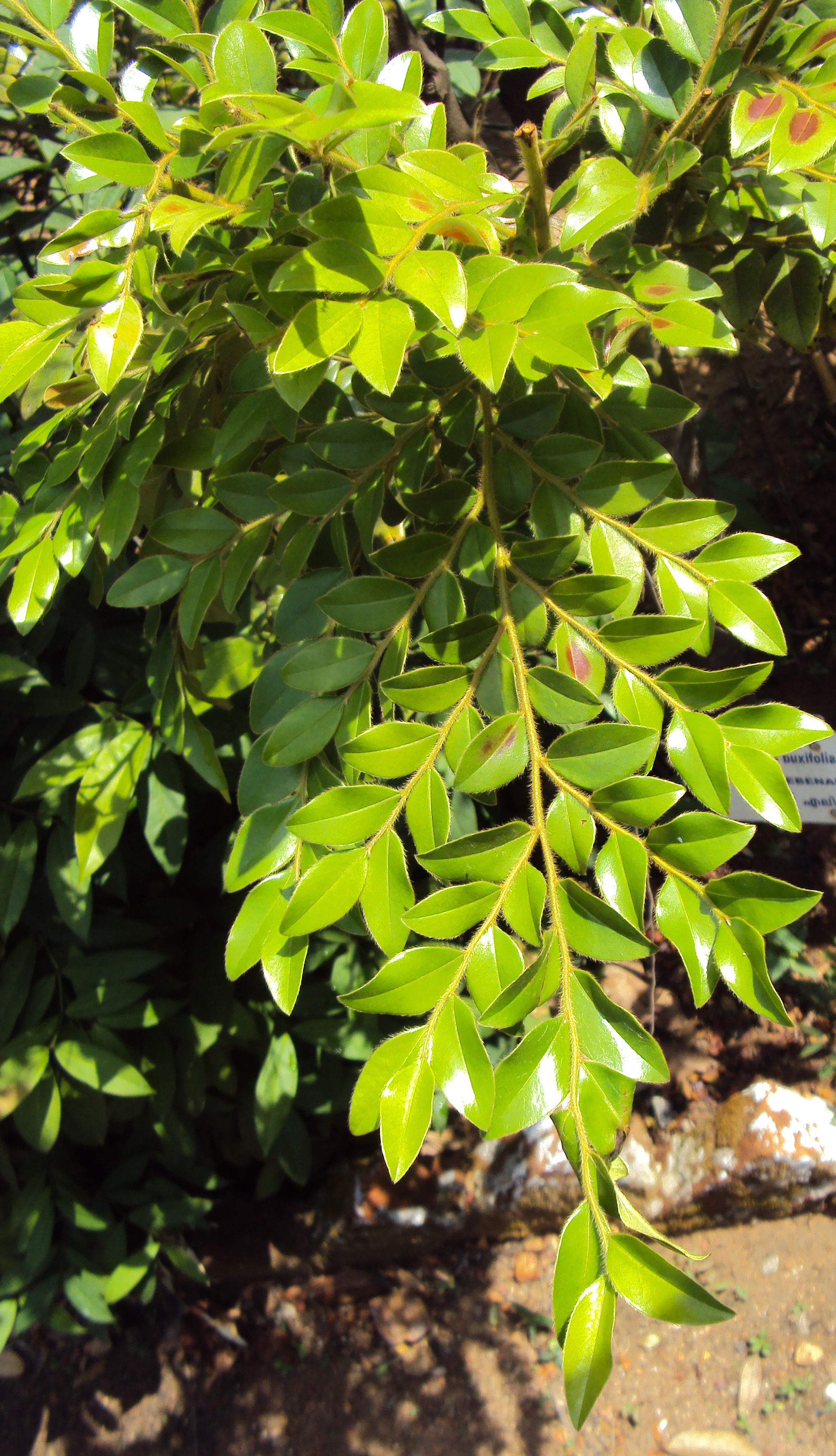 Diospyros buxifolia taken from Botanical garden of Kariyavattam University Campus, Trivandrum.